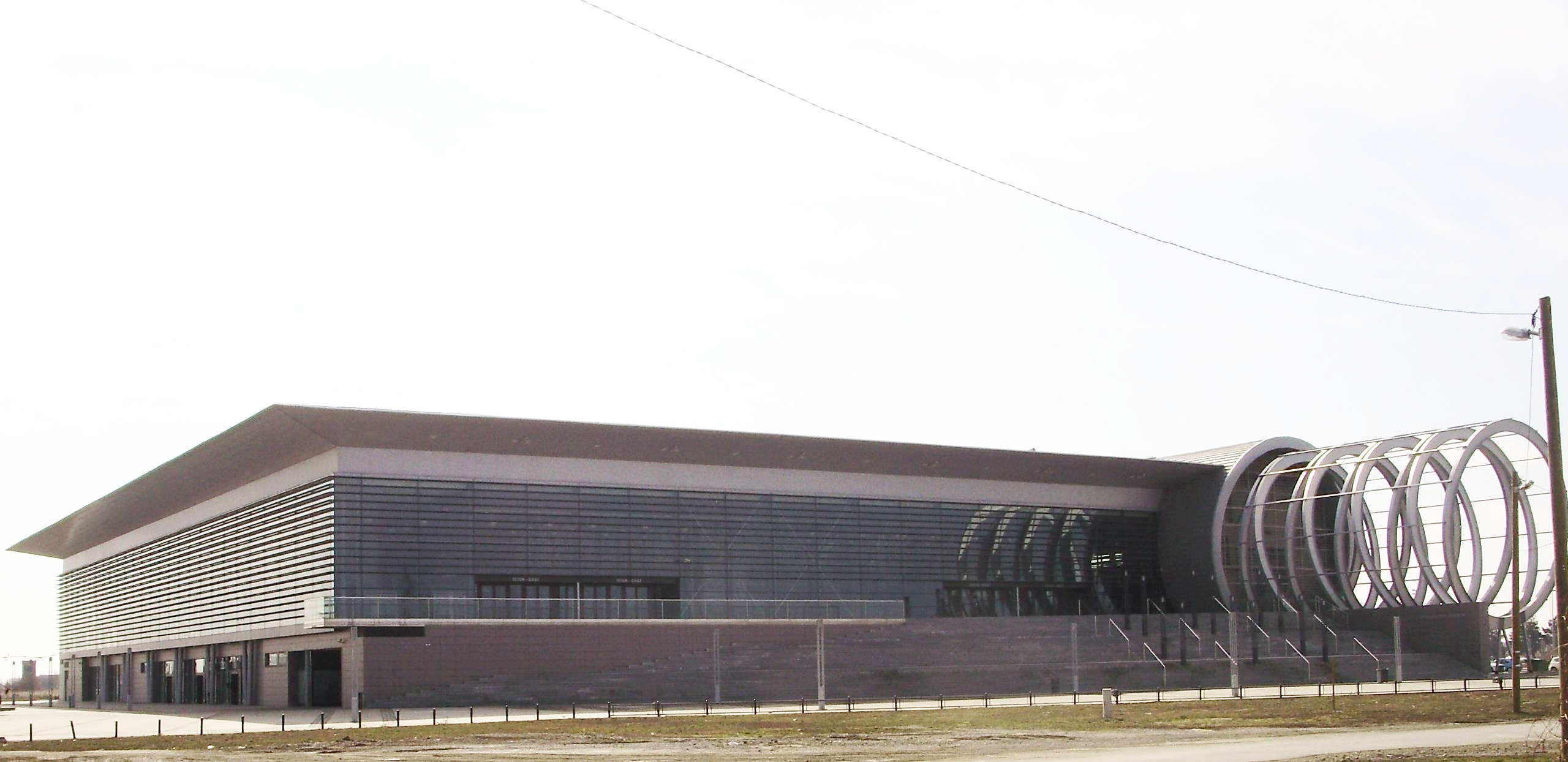 Gradski vrt Hall in Osijek, Croatia.